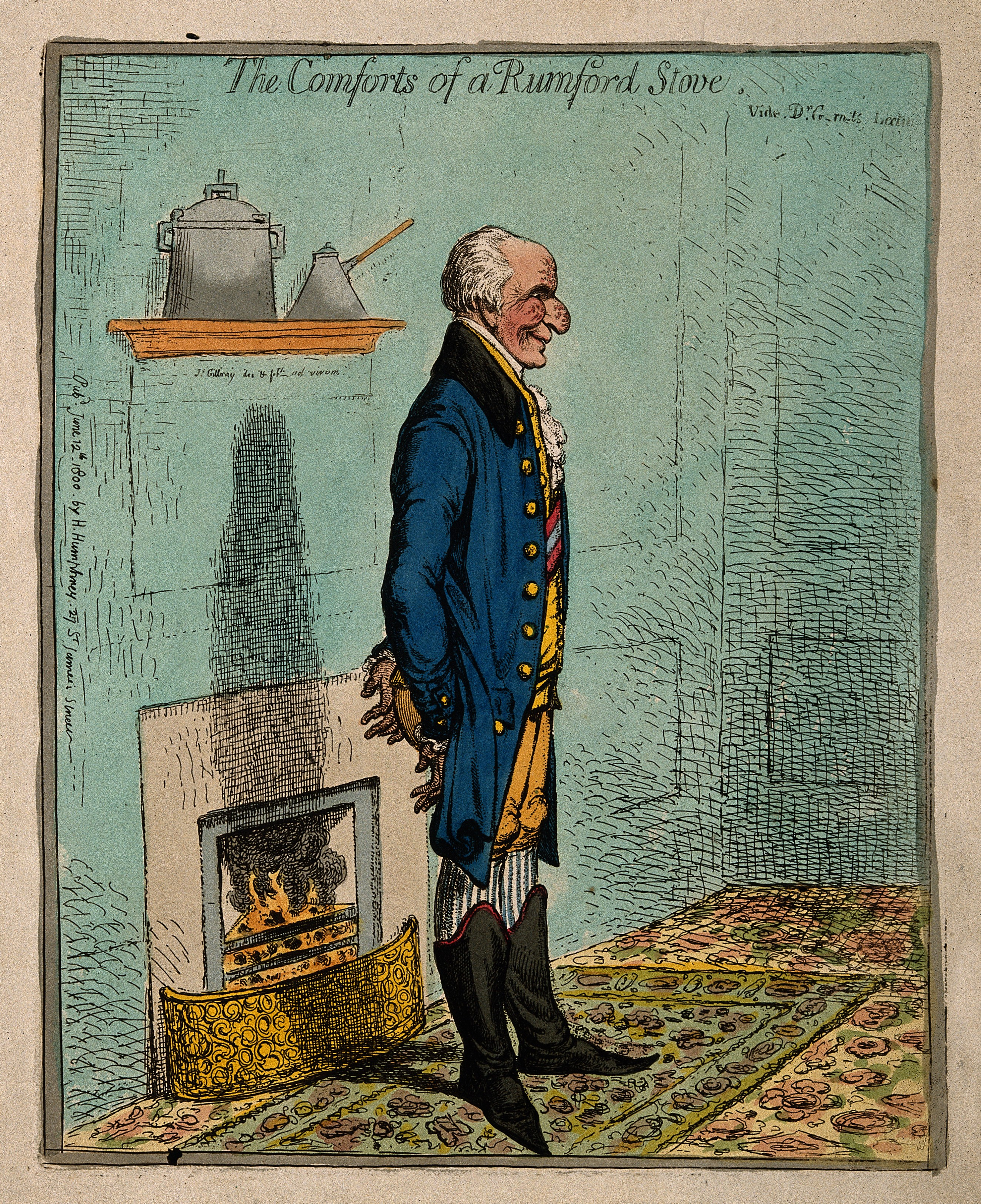 Sir Benjamin Thompson, Count von Rumford. Coloured etching by J. Gillray, 1800. Iconographic Collections Keywords: portrait prints; Benjamin Thompson; etchings